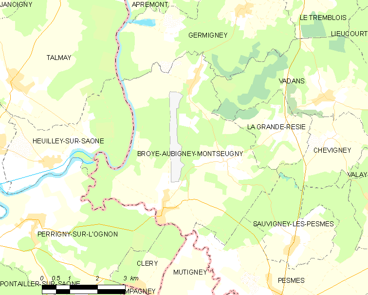 Map of French municipality